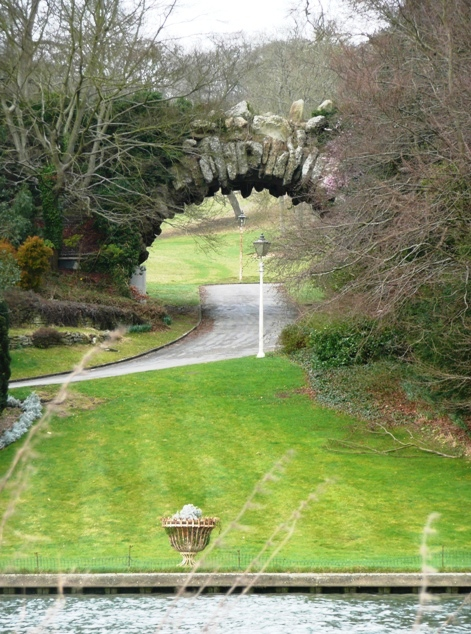 Conway Bridge This is a private road leading up Happy Valley from the Thames. Despite its apparent delicate structure, Conway Bridge carries the A321 Henley to Wargrave Road, although there are traffic lights and single-lane working at this point.